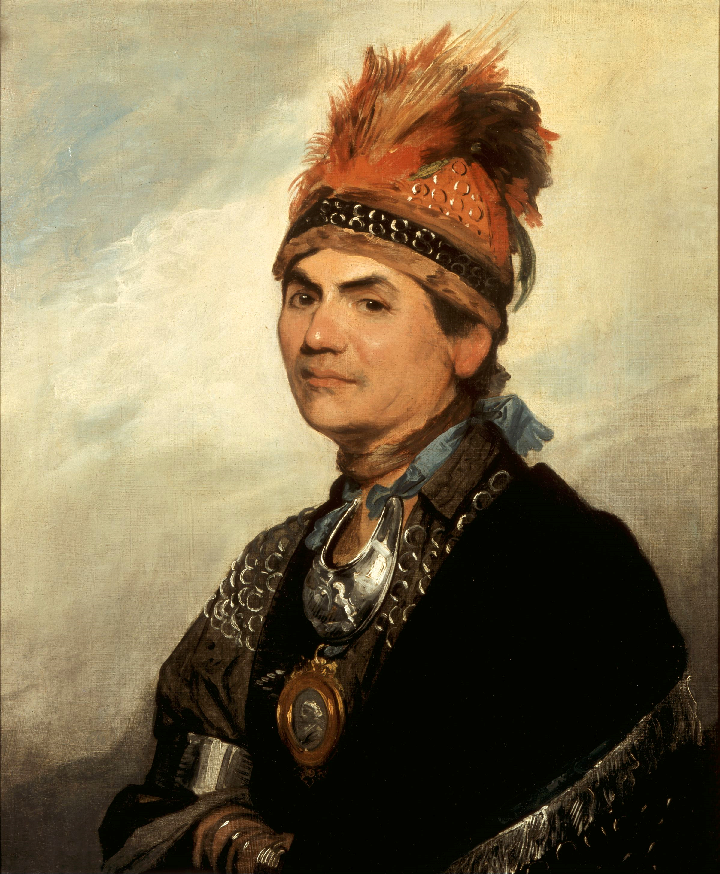 Depicted person: Joseph Brant